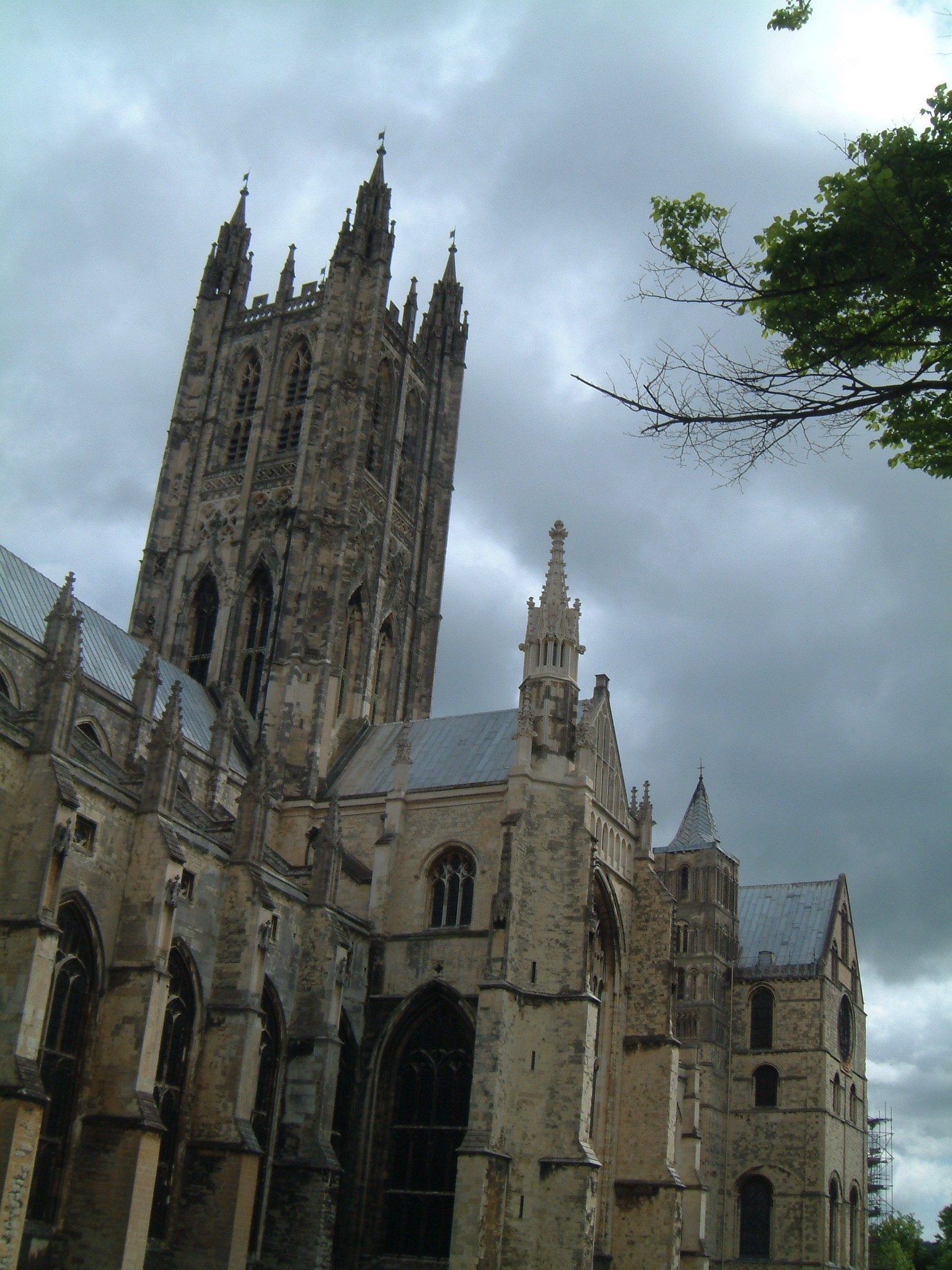 Canterbury - Crossing spire of Canterbury Cathedral